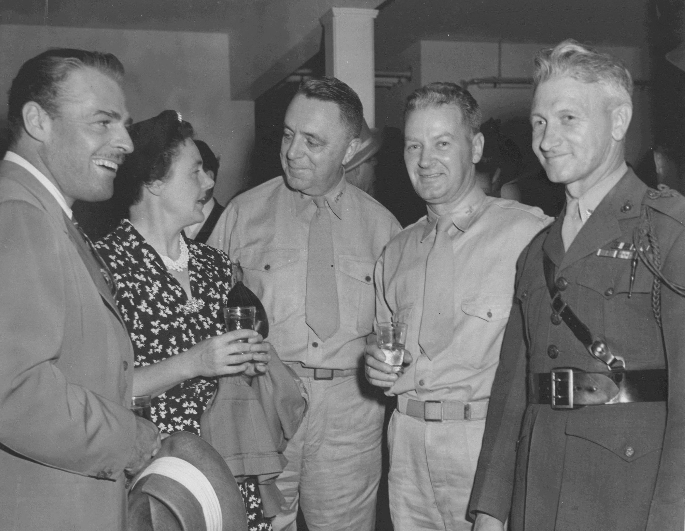 "This picture was taken at the premiere of Wake Island at Theater No. 1, Camp Elliott, San Diego, California, August 24, 1942. Left to right: Brian Donlevy, Mrs. Hermle, Major General John Marston, Colonel Leo D. Hermle, and Major Raymond W. Hanson." From the Leo D. Hermle Collection (COLL/3220) at the Marine Corps Archives and Special Collections OFFICIAL USMC PHOTOGRAPH